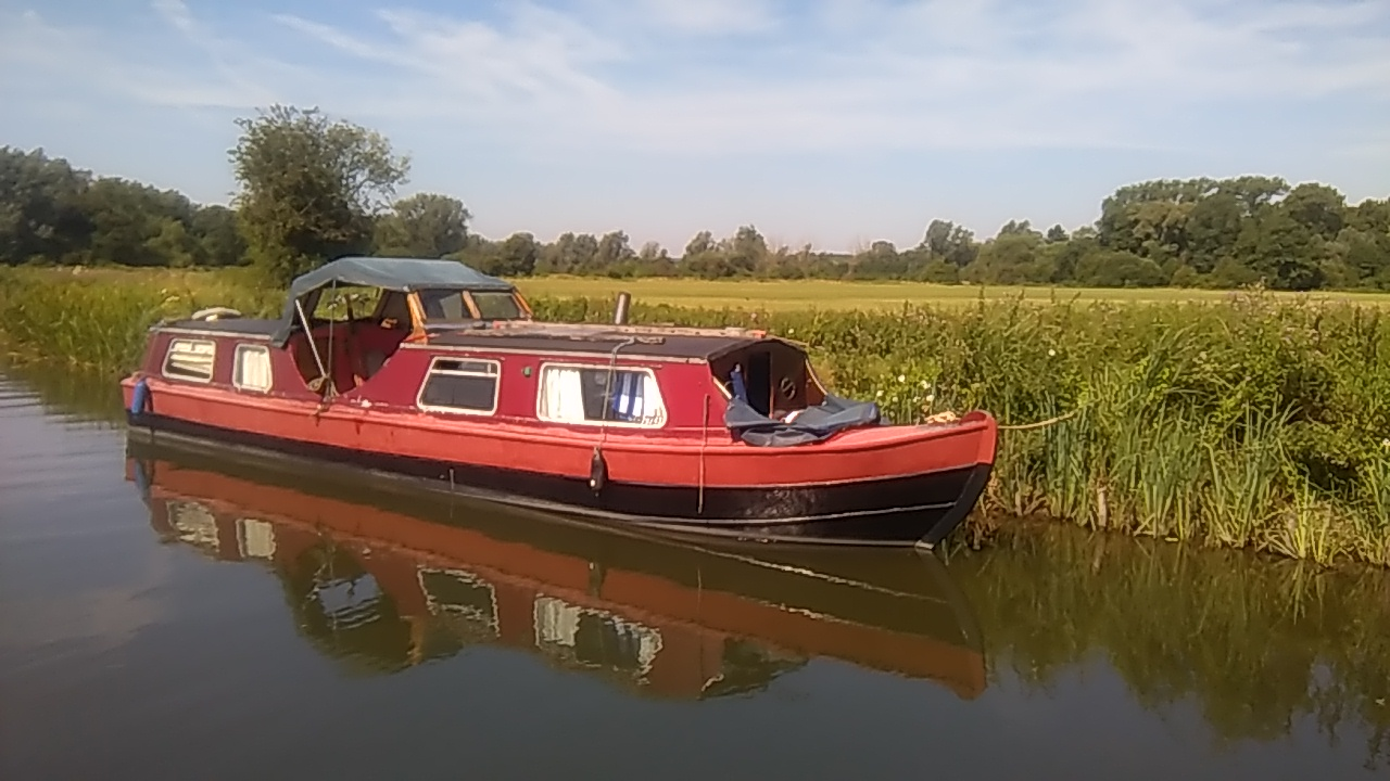 A narrowboat moored on the river Stort between Roydon and Harlow. It has a central cockpit with a steering wheel the engine is under the cockpit. It was built in the middle 1960s.